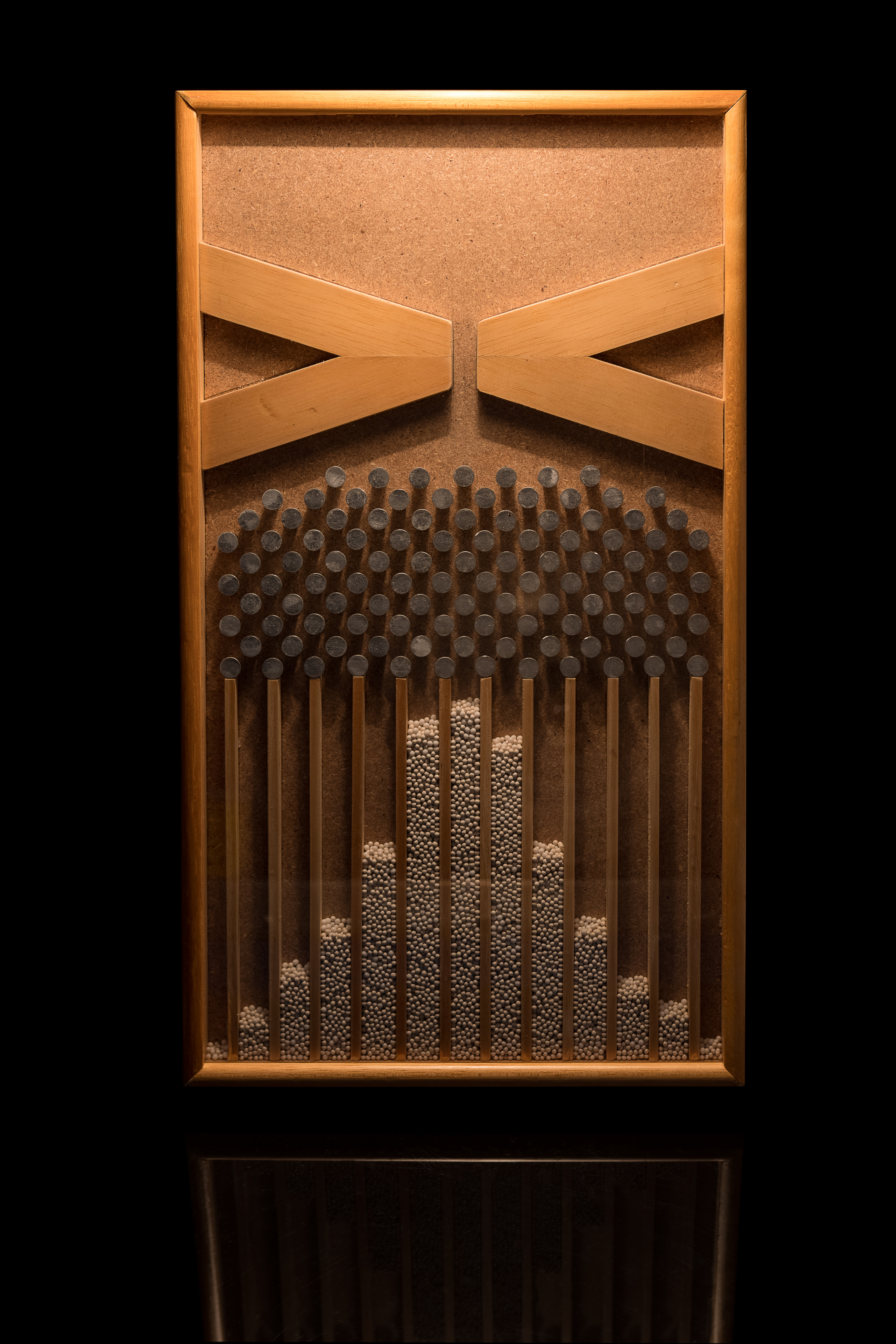 A Galton box showing a normal distribution.